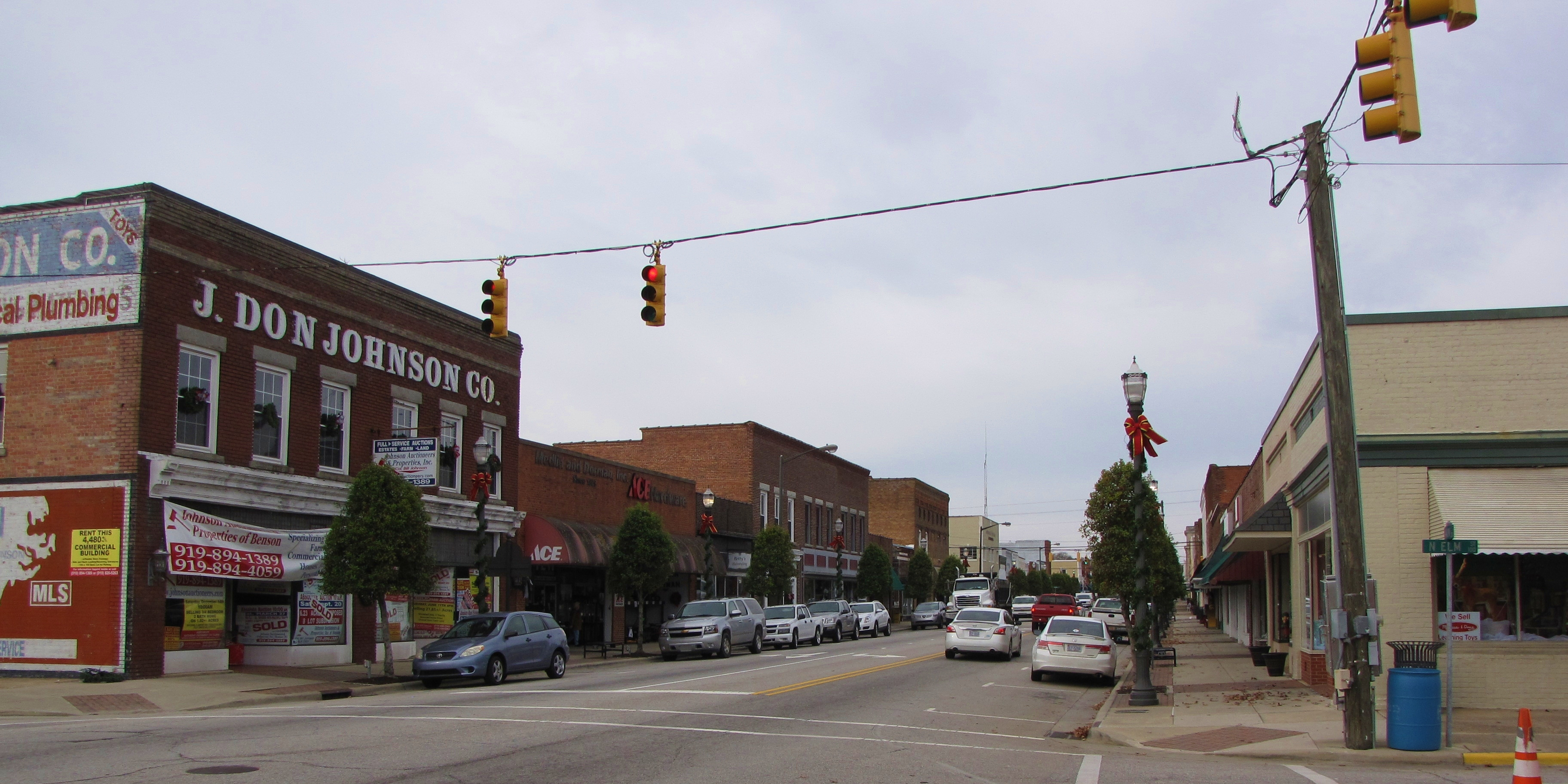 Main Street in Benson, North Carolina